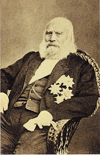 Old Kanaris